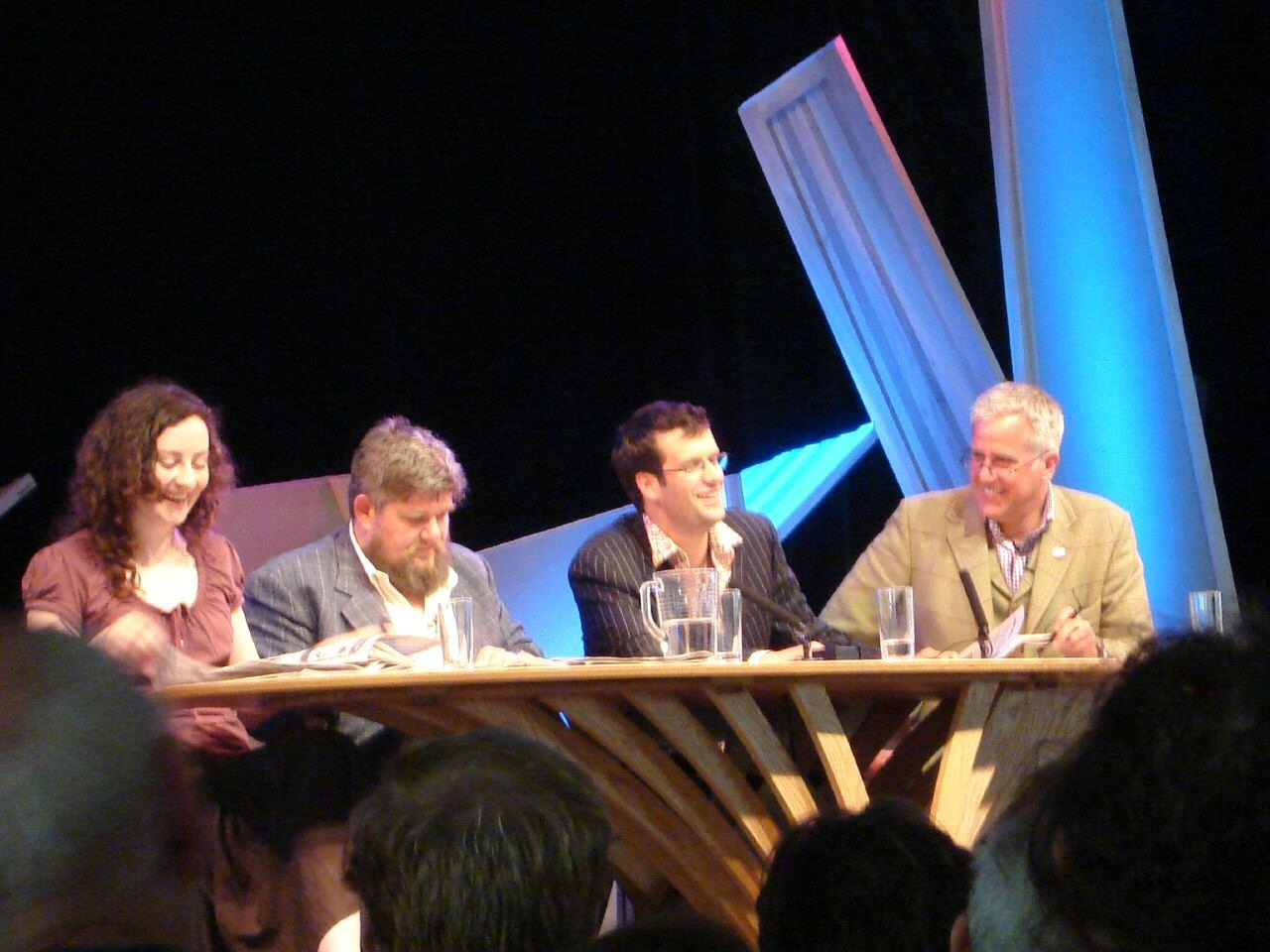 The Early Edition 1 - 24th May